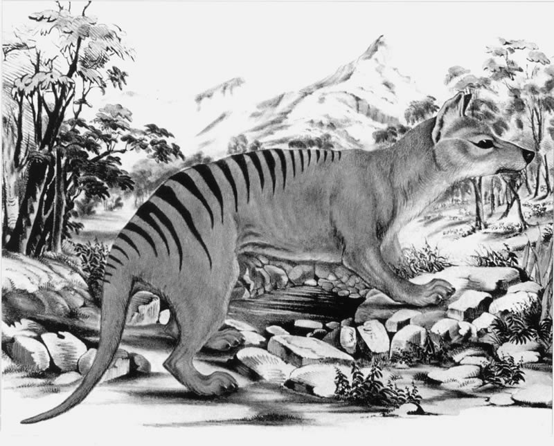 An illustration of Thylacinus cynocephalus.